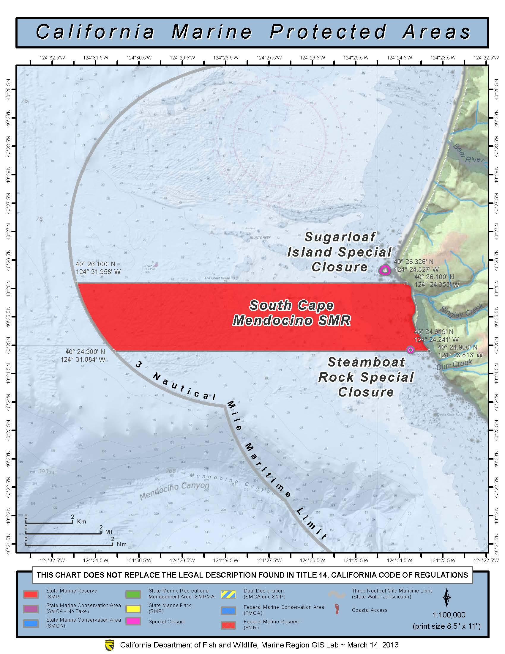 A map of the South Cape Mendocino State Marine Reserve and Sugarloaf Island, California Protected Marine Areas created by the California Department of Fish and Wildlife in 2013. Sugarloaf Island is a special closure zone as indicated by the pink ring. The cape is the westernmost point in California, and Sugarloaf Island is listed as the westernmost island in the state. It is 128 feet (39 meters) from mean sea level to the highest point and access is completely restricted.